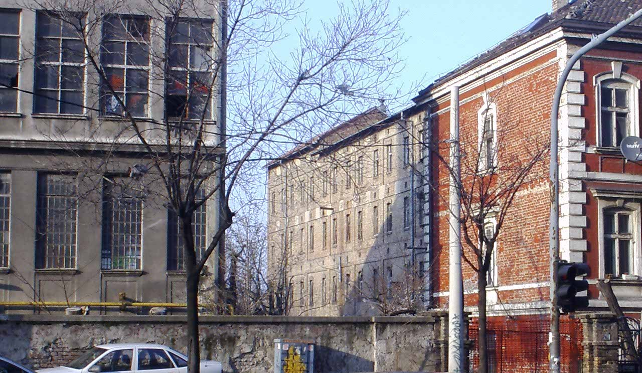 Main building of former Belgrade Livestock Slaughterhouse (center back). Srpskohrvatski / српскохрватски: Glavna zgrada bivše Beogradske klanice (u centru pozadi), viđeno iz ul. Despota Stefana.